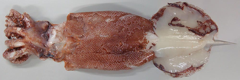 Lepidoteuthis grimaldii female (617 mm ML, 4070 g weight) from N.E. Chatham Rise off New Zealand, at 42°59'S, 175°54'W (caught in bottom trawl at 812 m depth)